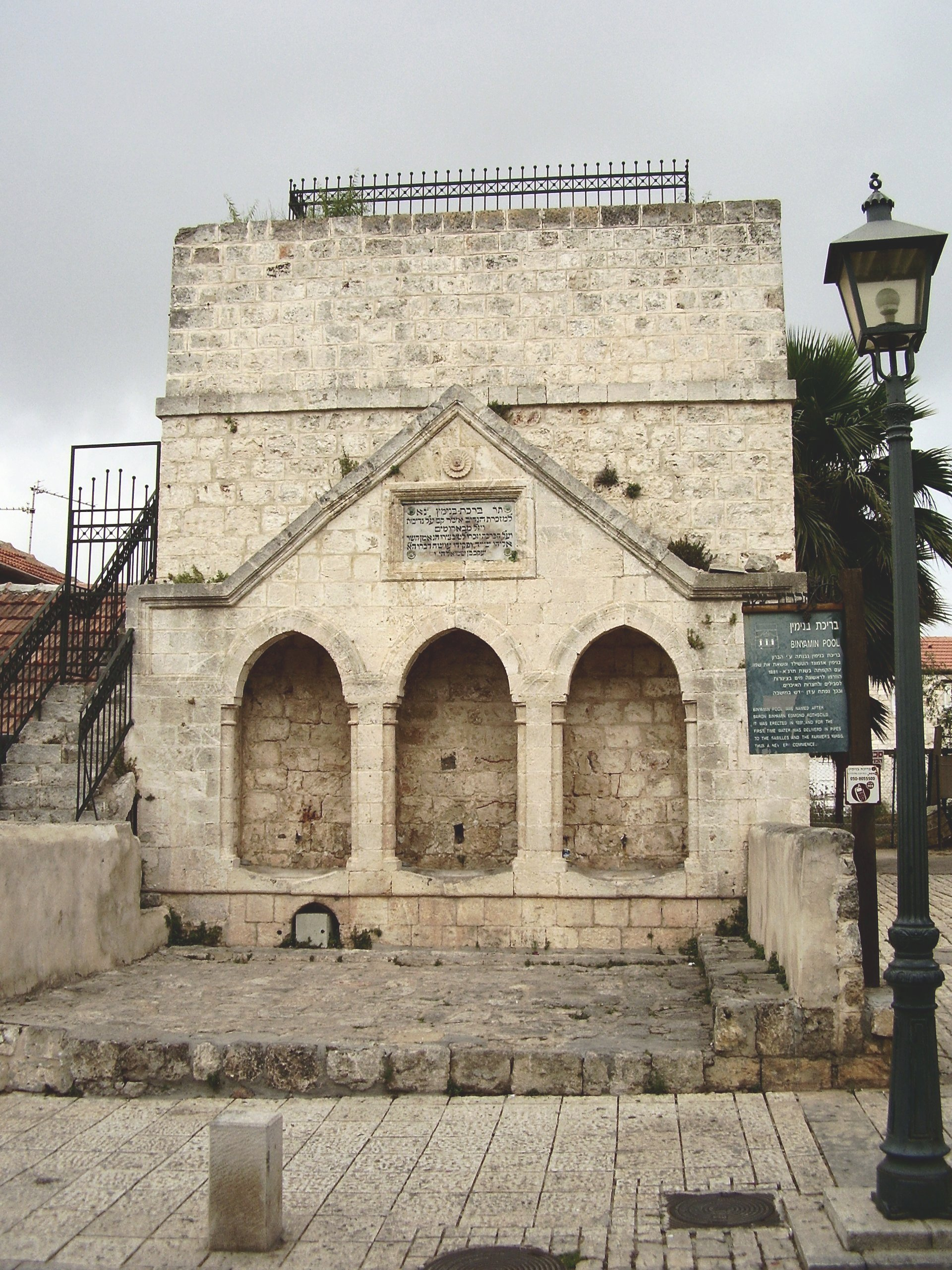 The front of the Binyamin pool, facing HaMeyasdim st., in Zichron Yaacov, Israel; view from west